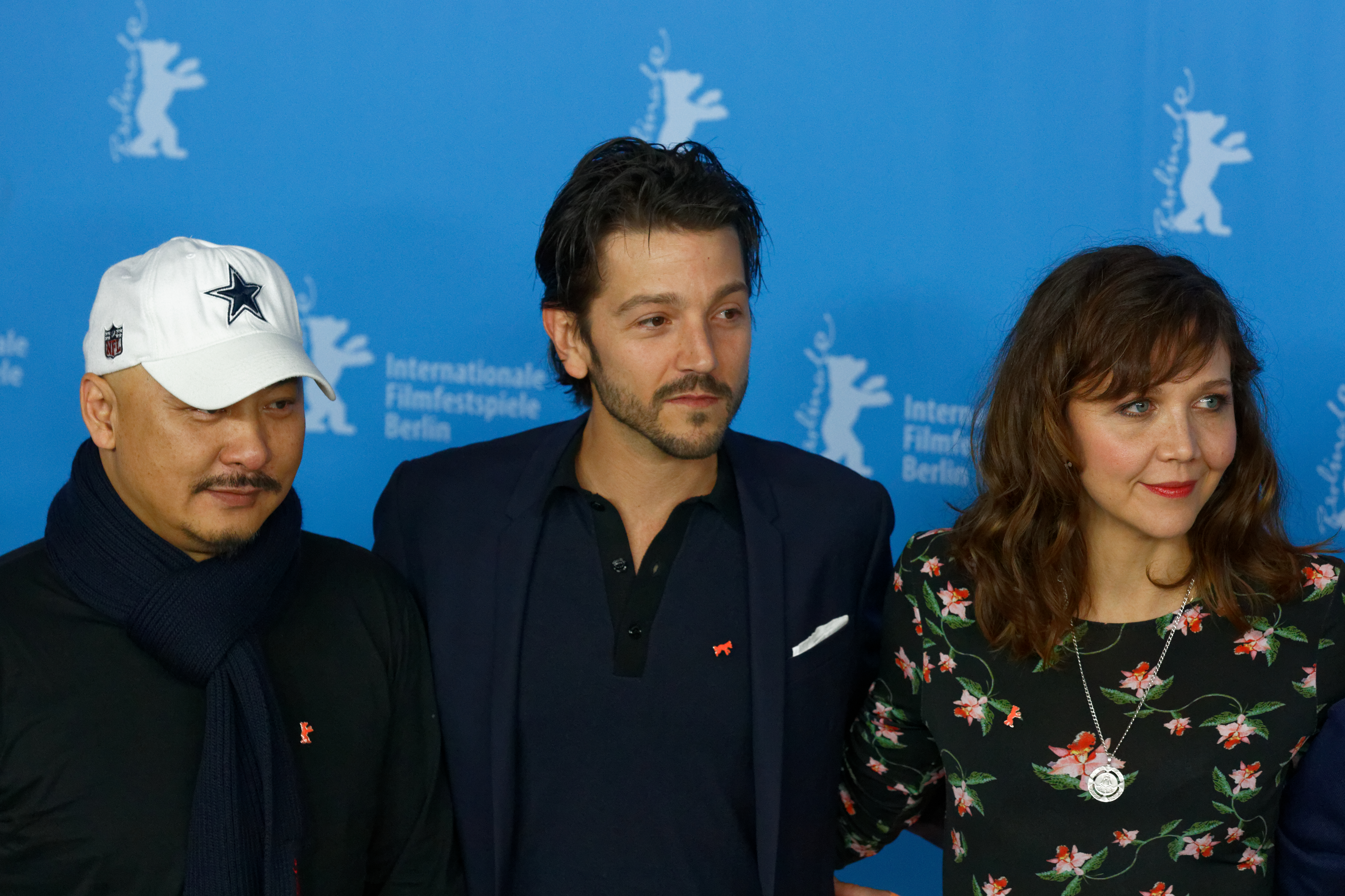 Wang Quan'an, Diego Luna and Maggie Gyllenhaal at Berlinale 2017